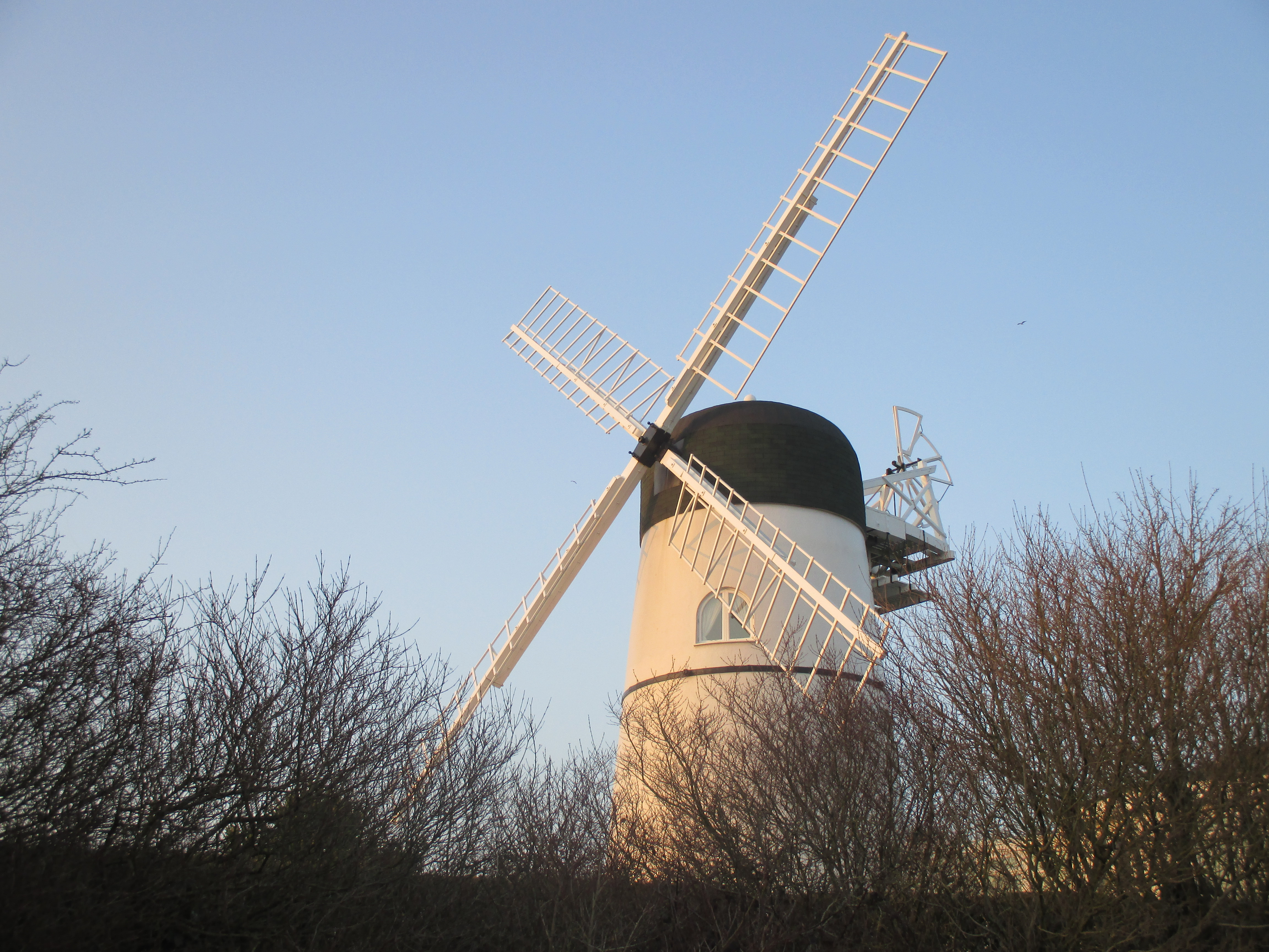 Patcham Windmill, Mill Road, Brighton, East Sussex